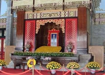 Main hall of National Revolutionary Martyr's Shrine 中文（台灣）: 國民革命忠烈祠正堂擺置的神龕。